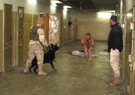 10:47 p.m., Dec. 12, 2003. SGT CORDONA has dog watching detainee while SSG FREDRICK watches. SOLDIER(S): SGT CORDONA and SSG FREDRICK. All caption information is taken directly from CID materials. U.S. Army / Criminal Investigation Command (CID). Seized by the U.S. Government.